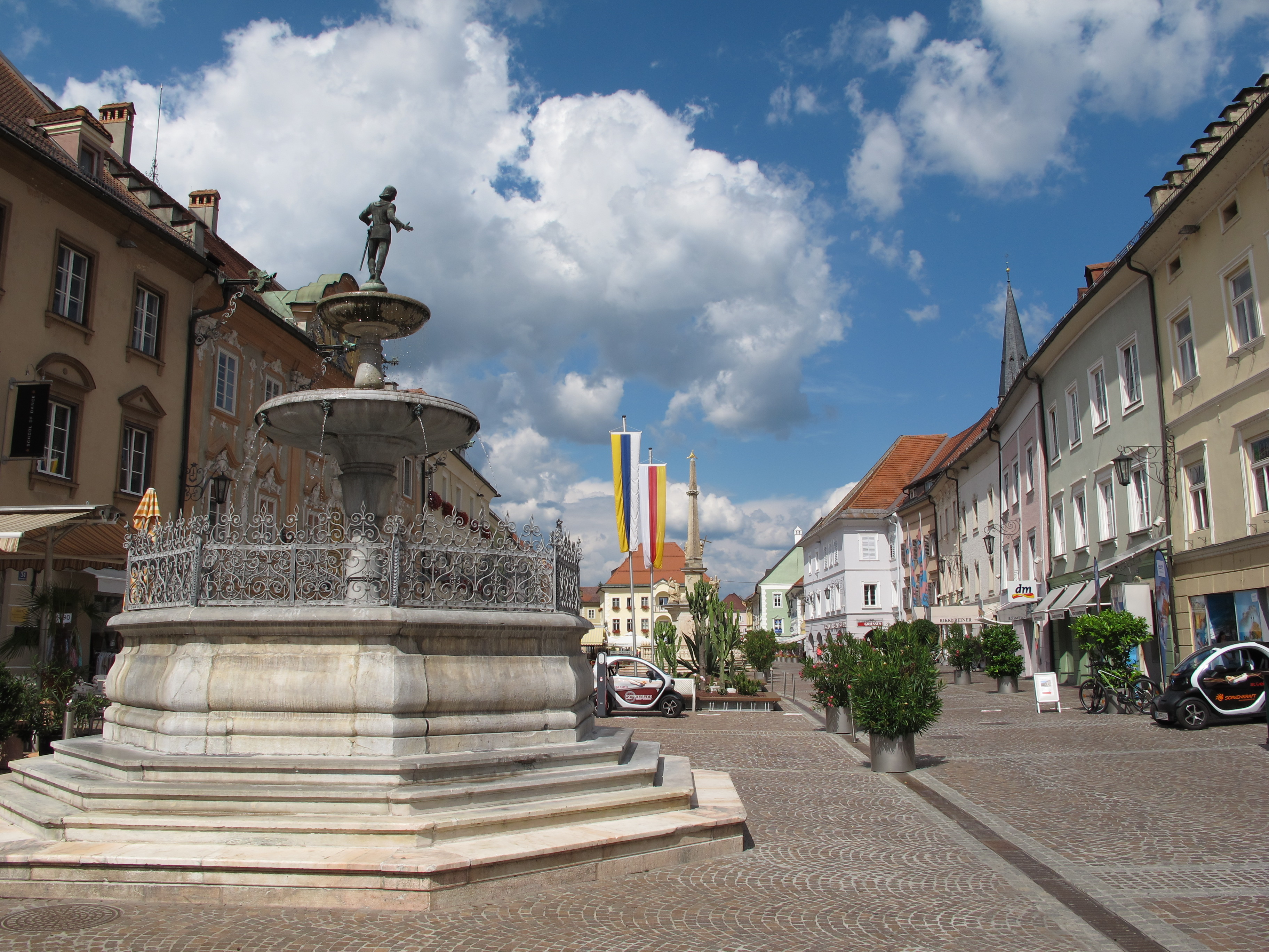 Walther von der Vogelweide St. Veit an der Glan